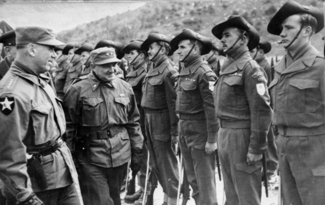 AWM Caption: Kapyong Area; Korea. GENERAL J. VAN FLEET, GENERAL OFFICER COMMANDING, 8TH US ARMY (FAR LEFT) , INSPECTS UNIDENTIFIED MEMBERS OF THE 3RD BATTALION, ROYAL AUSTRALIAN REGIMENT (3RAR), WHEN BESTOWING THE PRESIDENTIAL CITATION IN RECOGNITION OF THE UNIT'S ACTION AT KAPYONG, KOREA. US MAJOR GENERAL JOHN W. O'DANIEL IS TO VAN FLEET'S LEFT. Photograph also held at HOBJ2699.